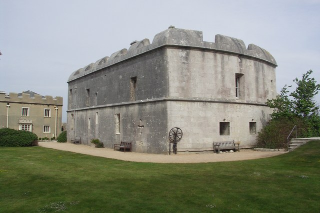 Portland Castle Built by Henry VIII in the 1540s as a coastal defence against the French and Spanish. It was used as a prison during the Civil War, a sea-plane station in WWI, and a command post during WWII. It is now owned by English Heritage and is open to the public daily.